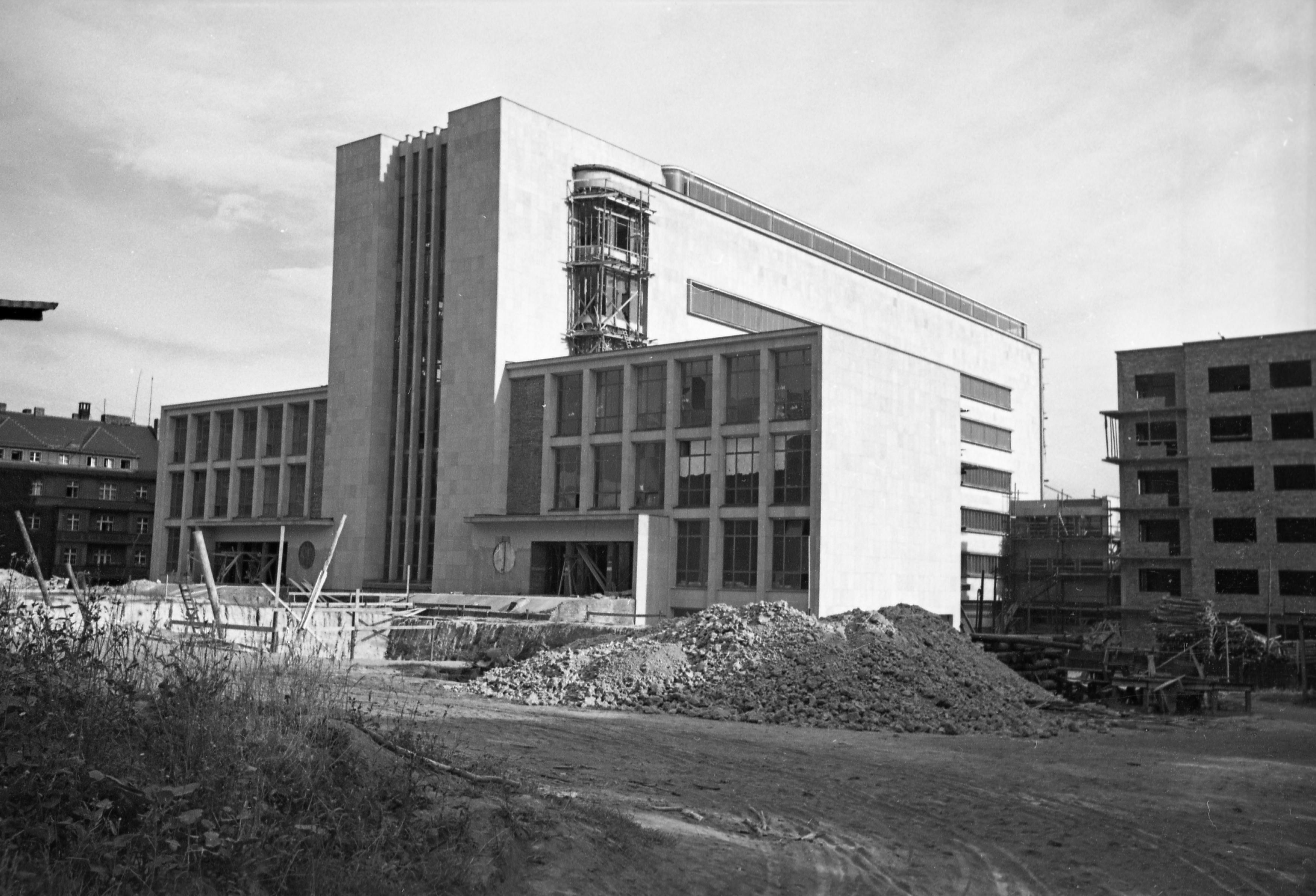 Non-existent building of the Silesian Museum under construction, near the current street Henryk Dąbrowskiego 23 in Katowice, Poland.